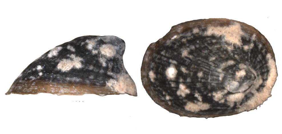 Specimen from the single extant Rhodacmea filosa population (Choccolocco Creek).